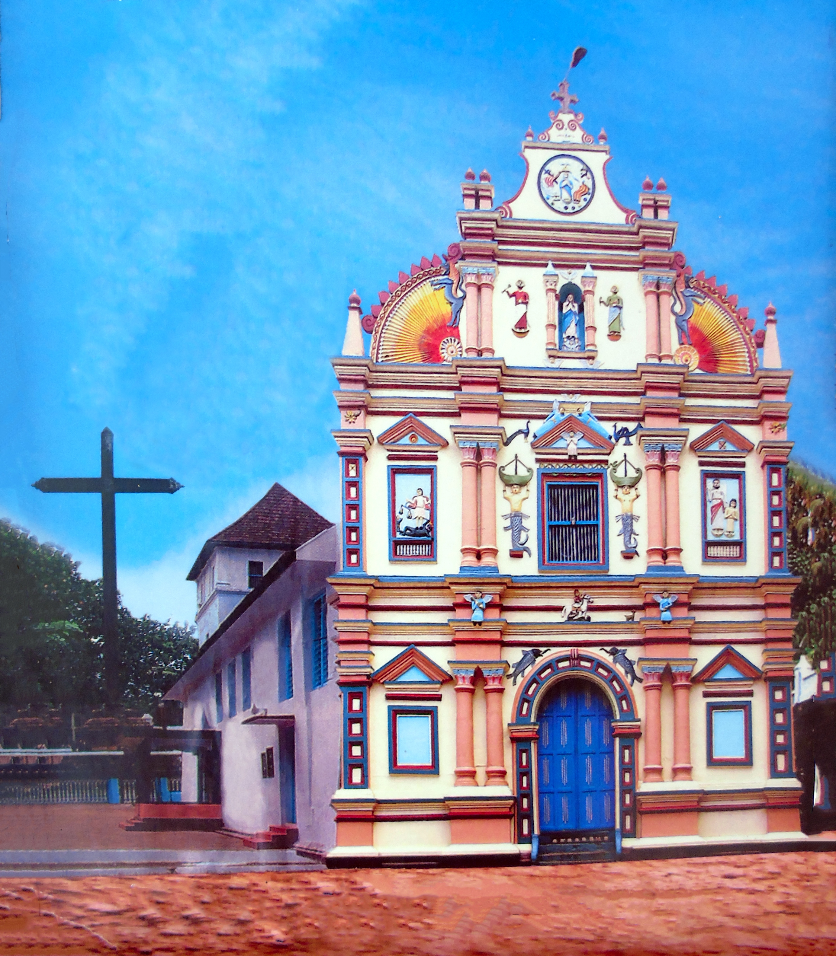 Kaduthuruthy Knanaya Church built in 400 A.D. according to folk tradition.